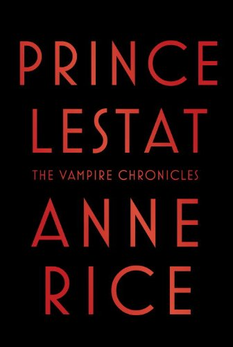 Official cover of Prince Lestat